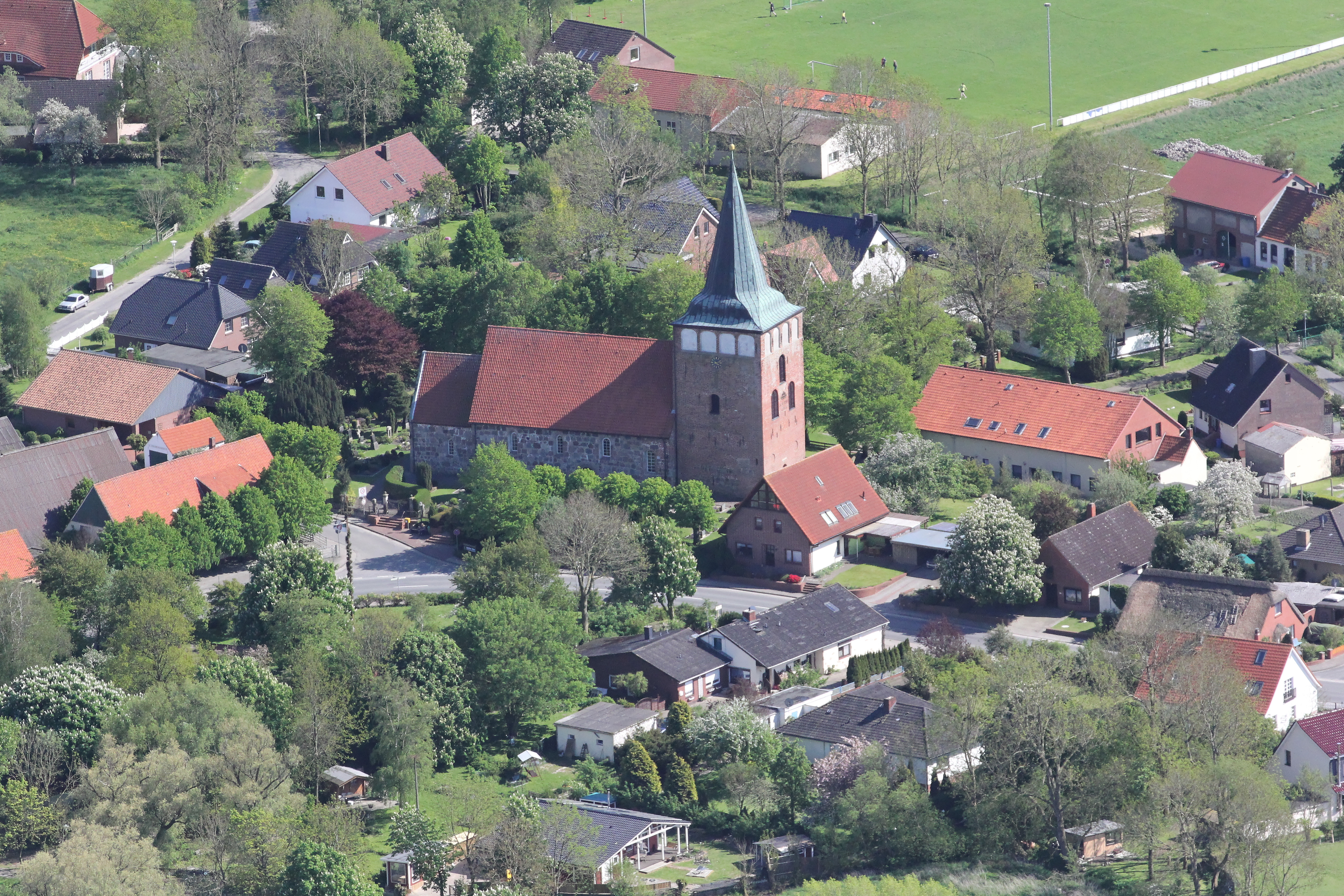 A aerial photograph of a unidentified location.